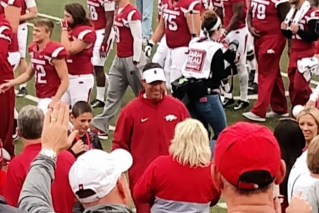 Arkansas offensive coordinator Dan Enos and his family on the sidelines after a win over Auburn